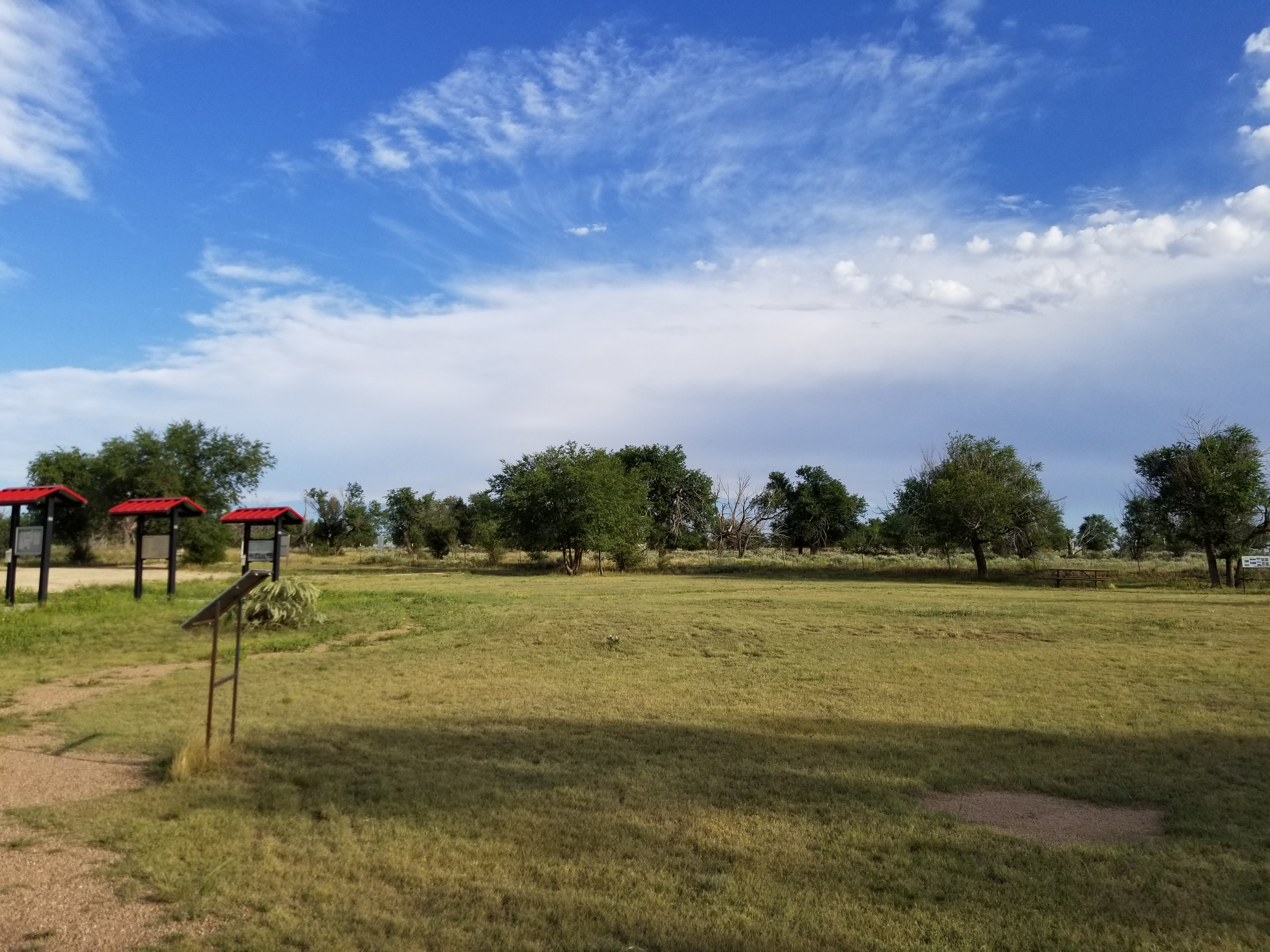 View of Granada War Relocation Center from the interpretive signs at the entrance